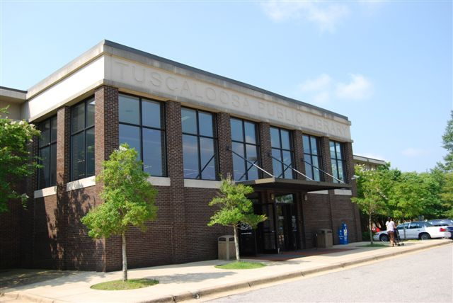 The front of the Tuscaloosa Public Library Main Library Building